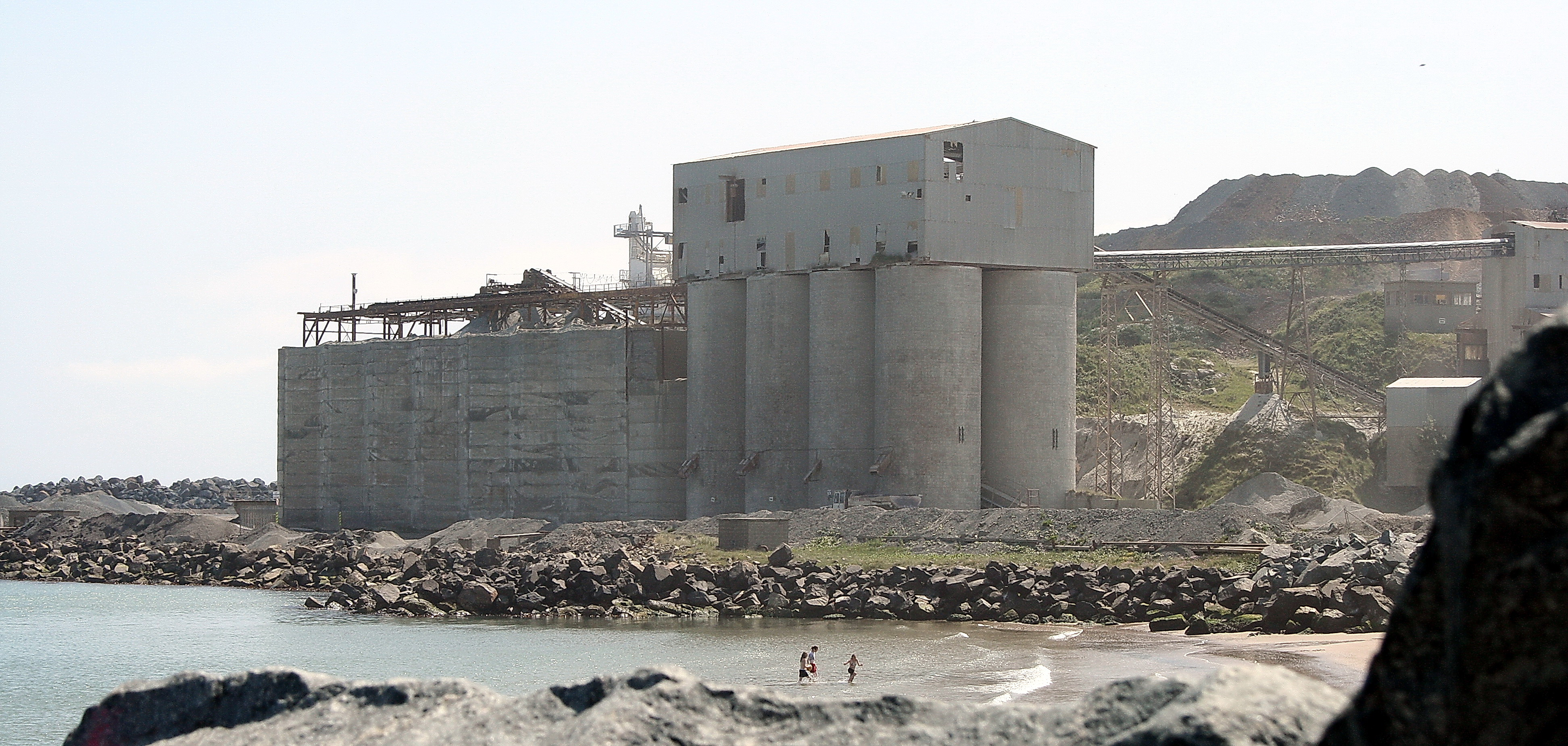 The stone quarry at Arklow Rock, County Wicklow